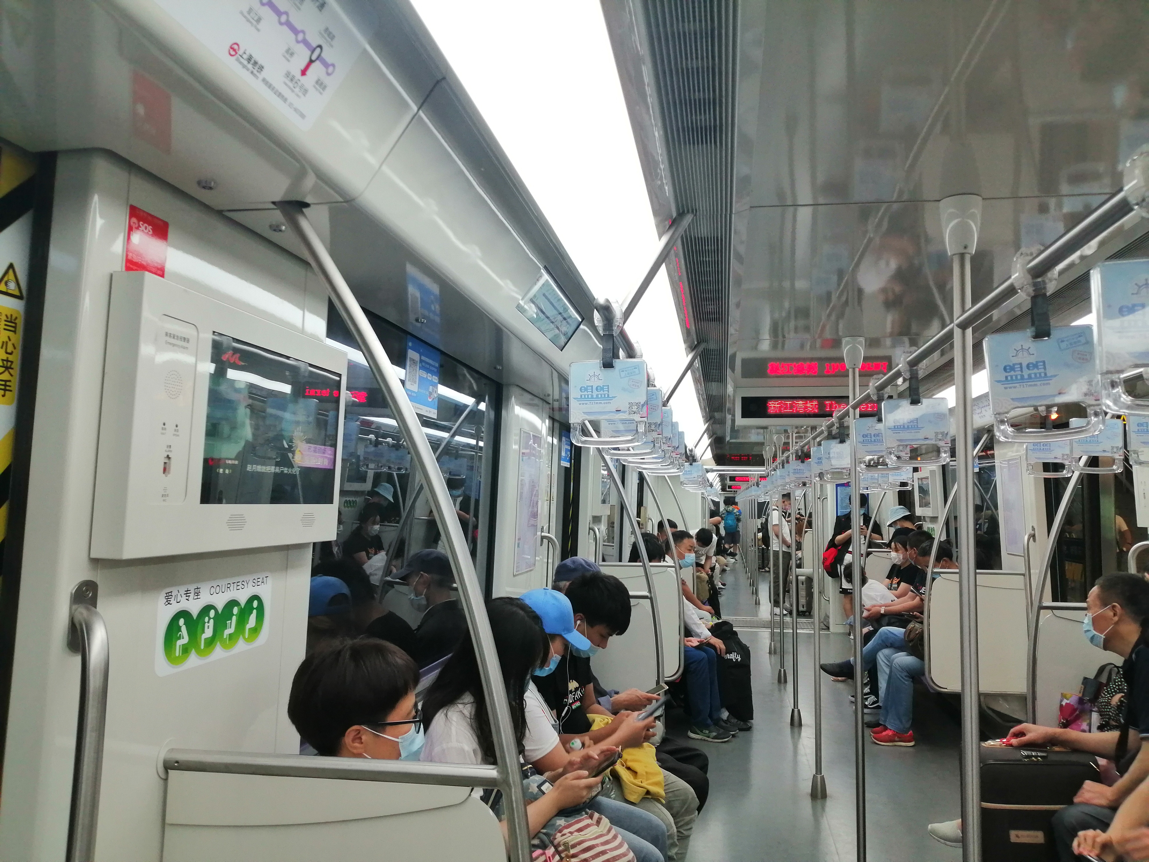 All passengers wear mask, and there is a QR code in the train, which is sign up your personal information for controlling outbreak.